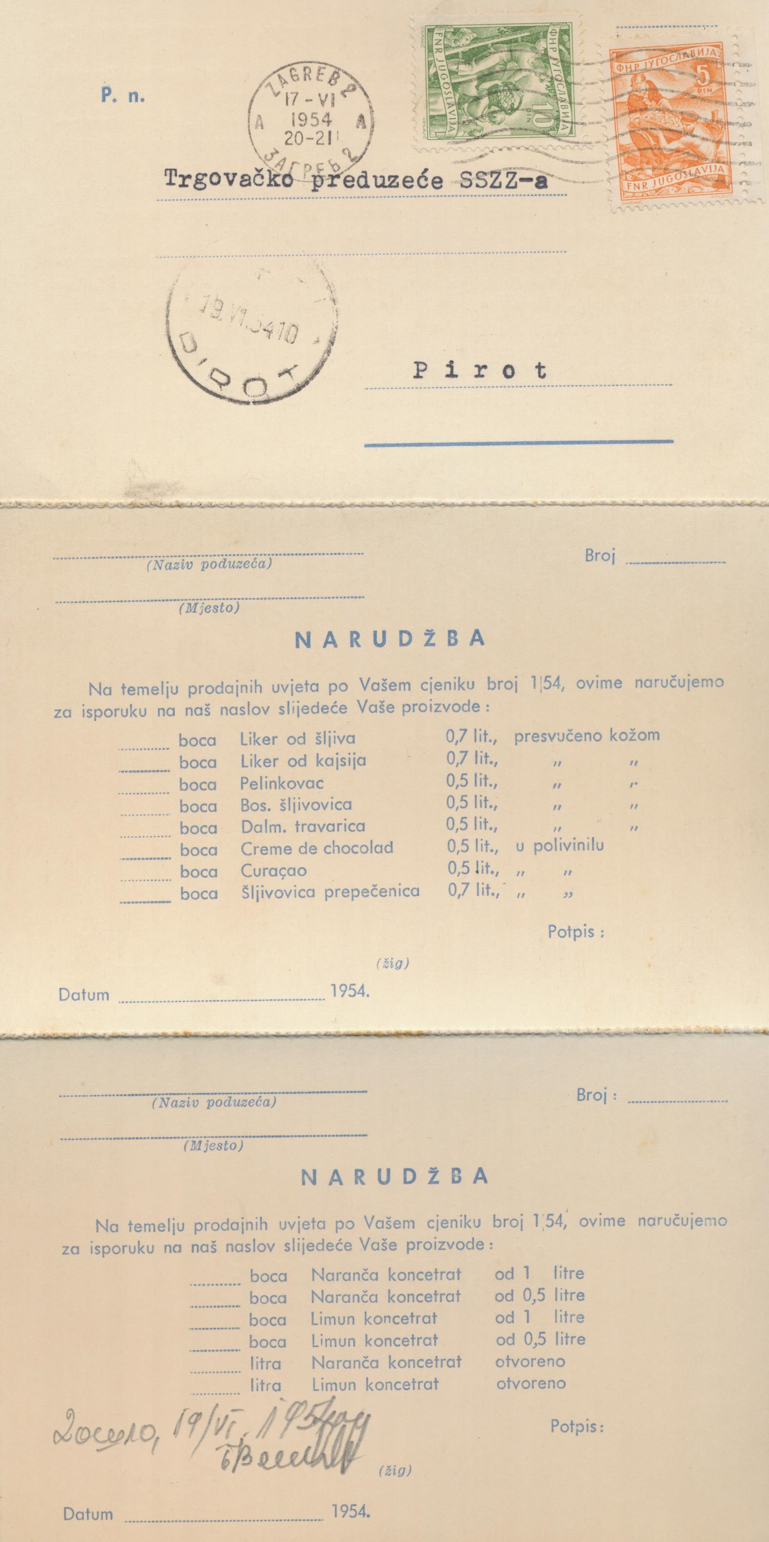 Postal card from BADEL to the Seoska zadruga Pirot